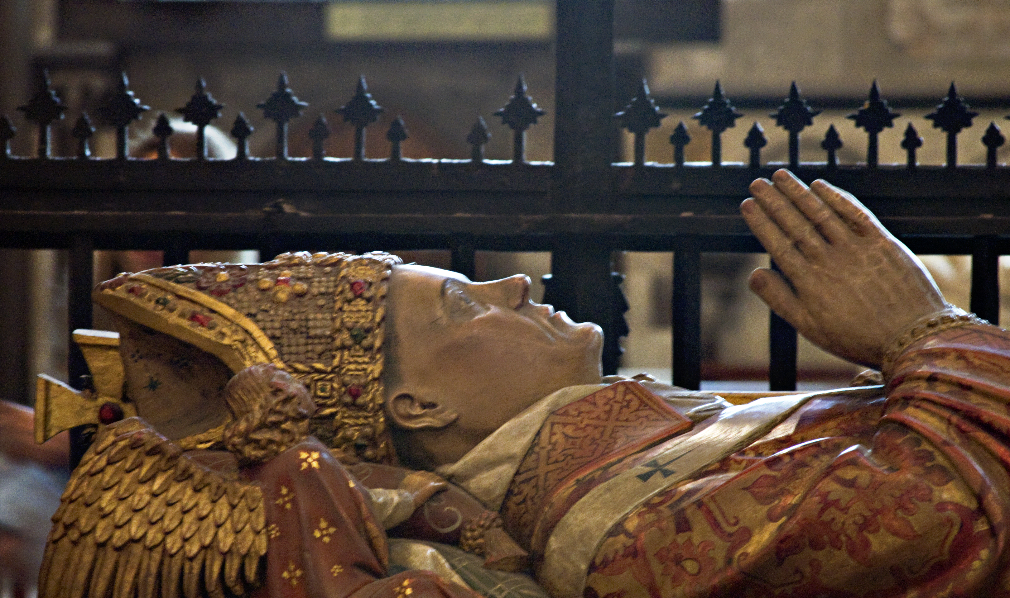 Effigy of Henry Chichele, Archbishop of Canterbury, from his tomb in Canterbury Cathedral